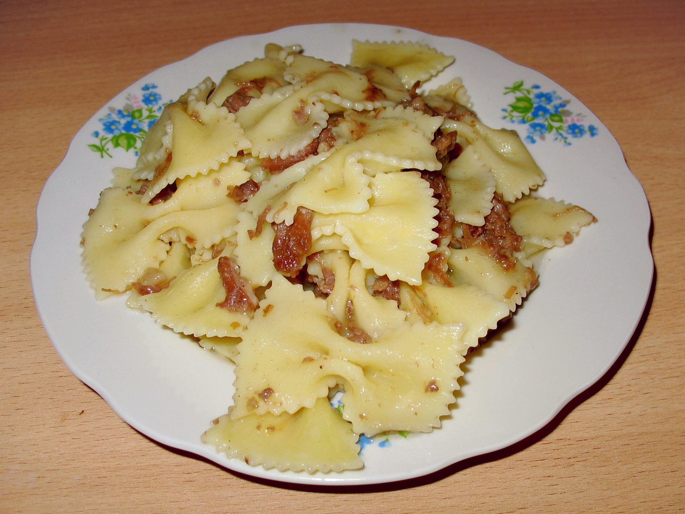 Pasta navy-style, a Soviet Russian dish